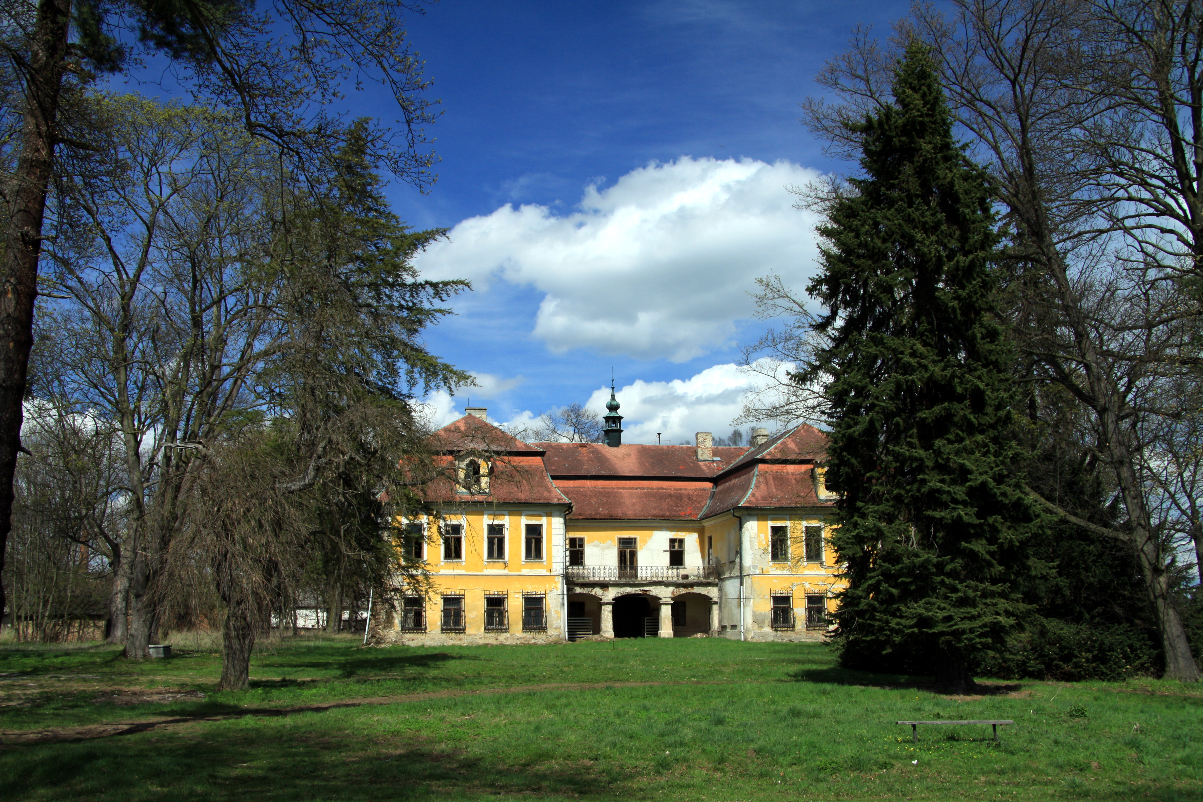 Baroque chateau in Smolotely village in Příbram District, Czech Republic